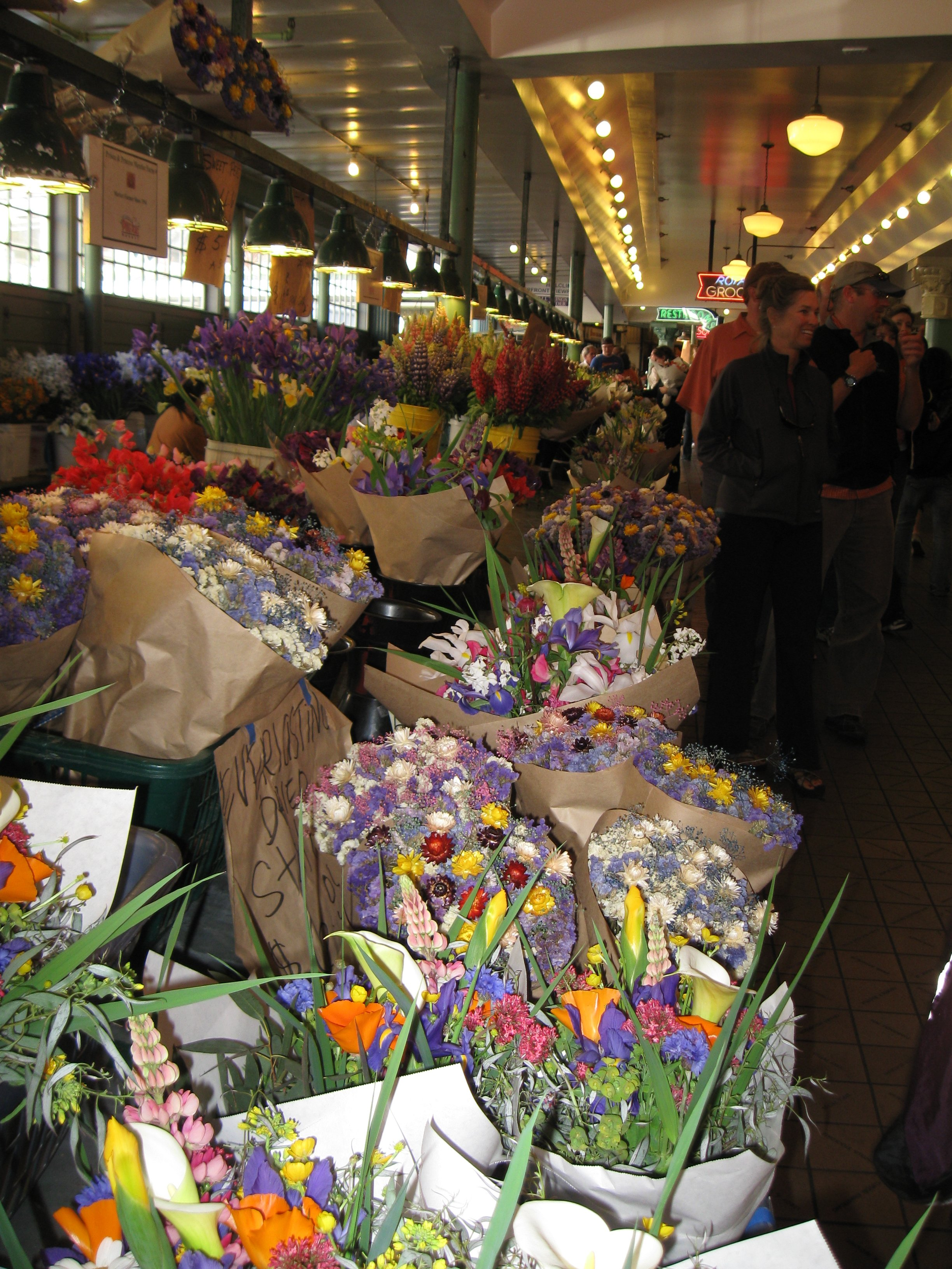 Pike Place Market